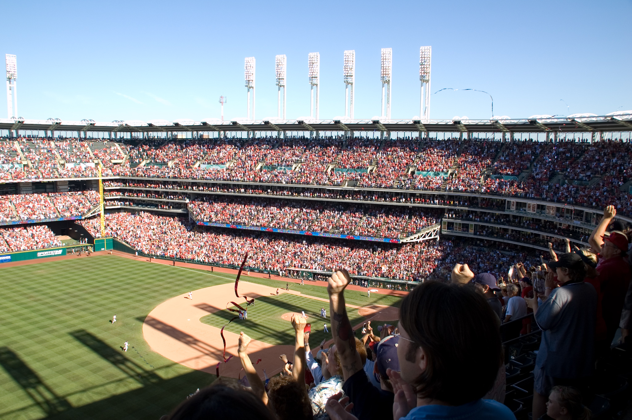 Cleveland Indians fans at Jacobs Field celebrate the team's victory over Oakland that clinched the American League Central Division title on September 23, 2007.We Win!